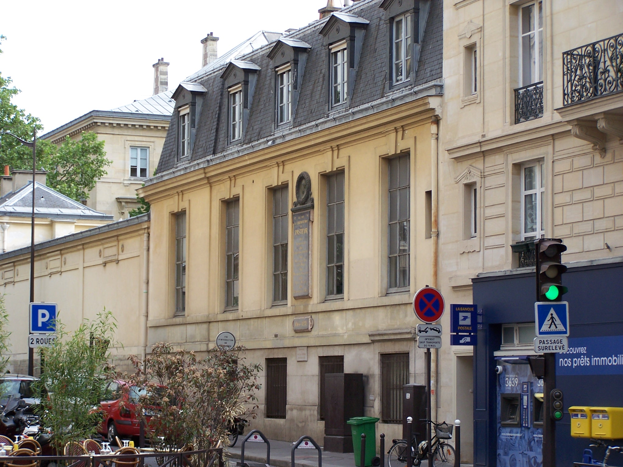 Historical lab where Louis Pasteur conducted all his experiments from 1864 to 1888 at the École normale supérieure, rue d'Ulm in Paris